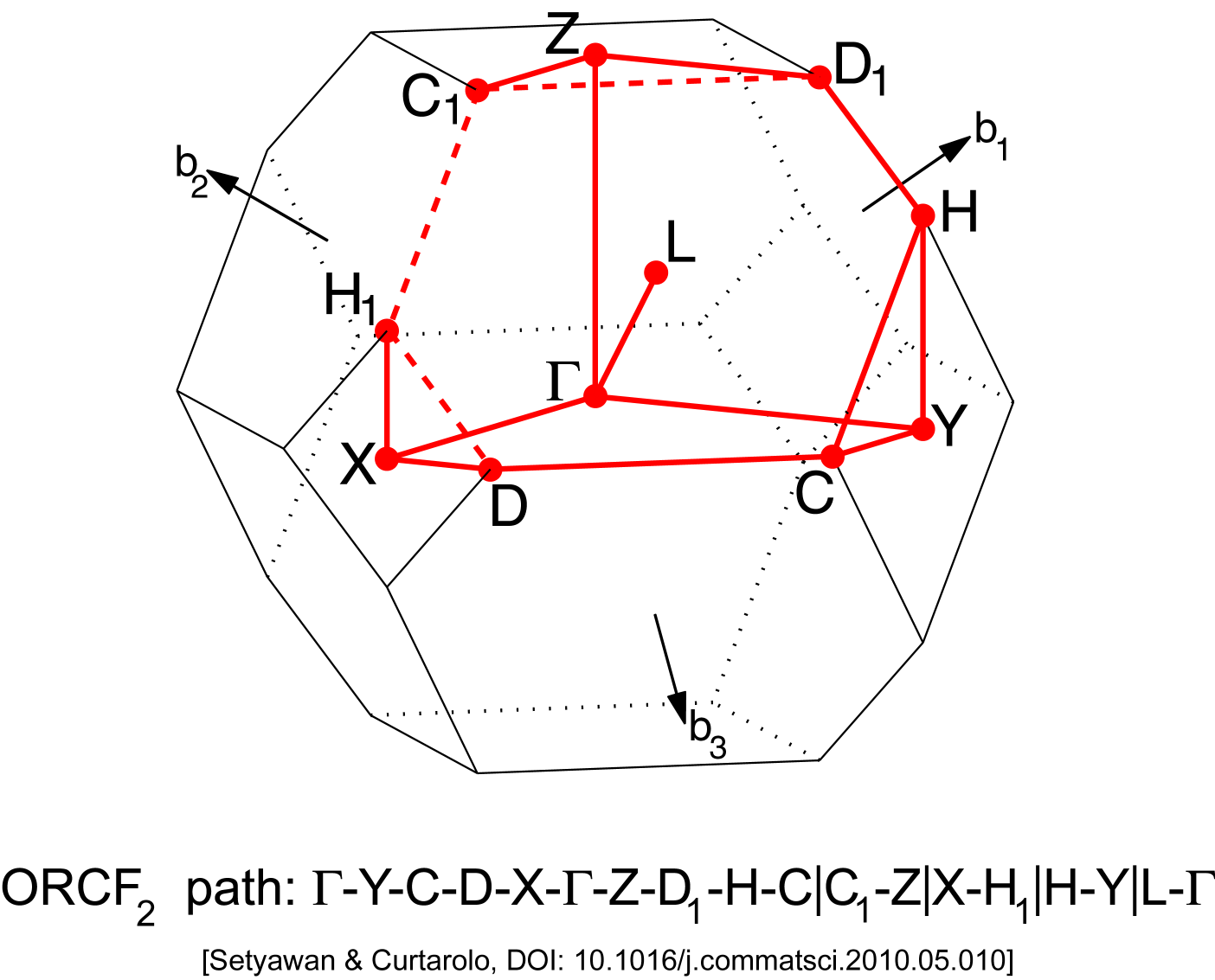 Curtarolo, consortium